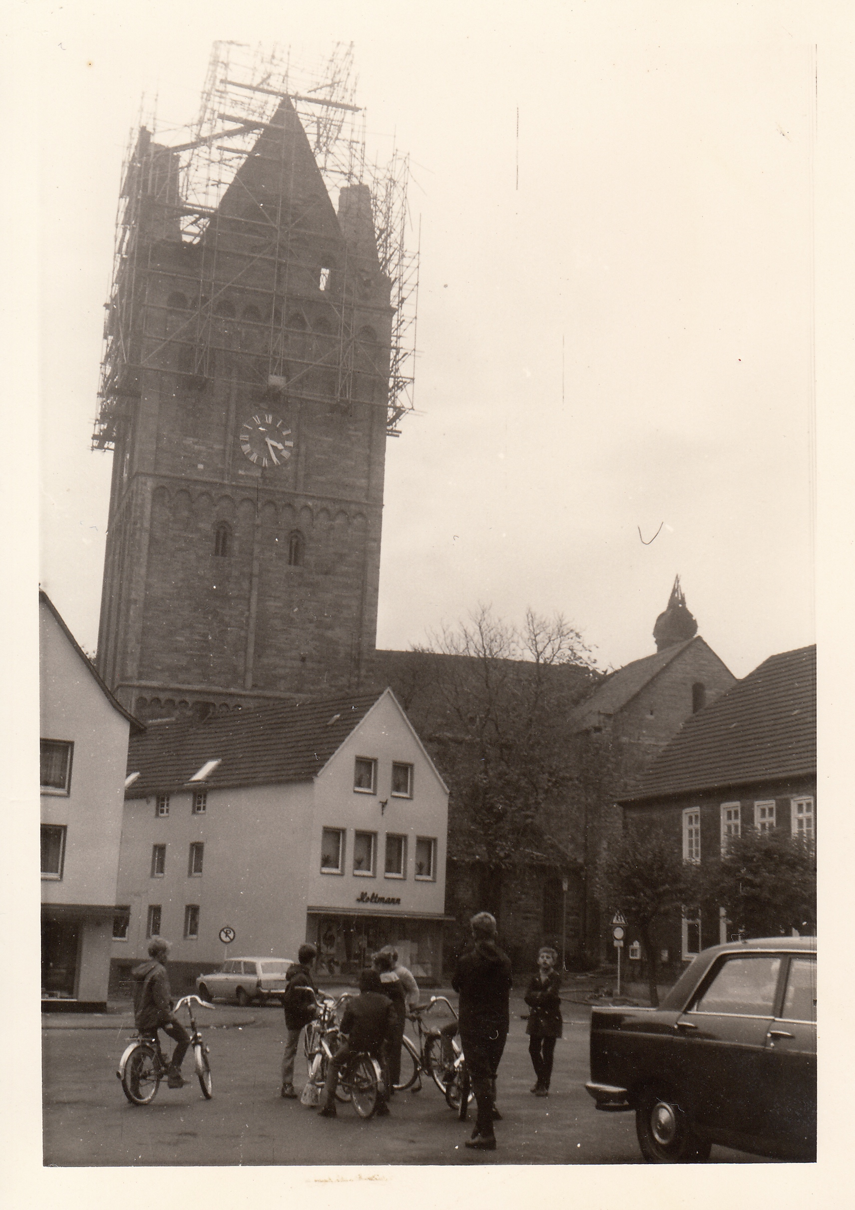 St. Laurentius in Erwitte after the tower fire in 1971